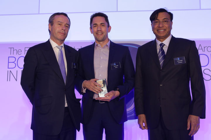 Editor Lionel Barber, and ArceloMittal CEO Lakshmi Mittal, stand with Graeme Smith, CEO of Oxbotica as he receives the Boldness in Business Award.